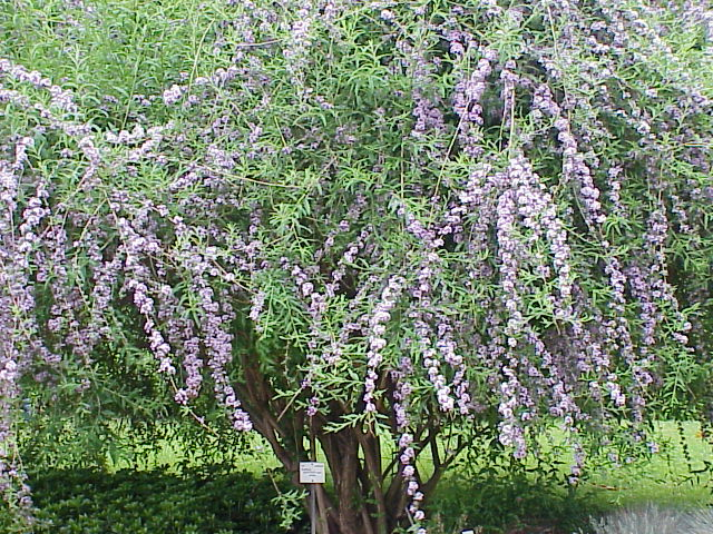 Species: Buddleja alternifolia Family: Buddlejaceae Image No. 6